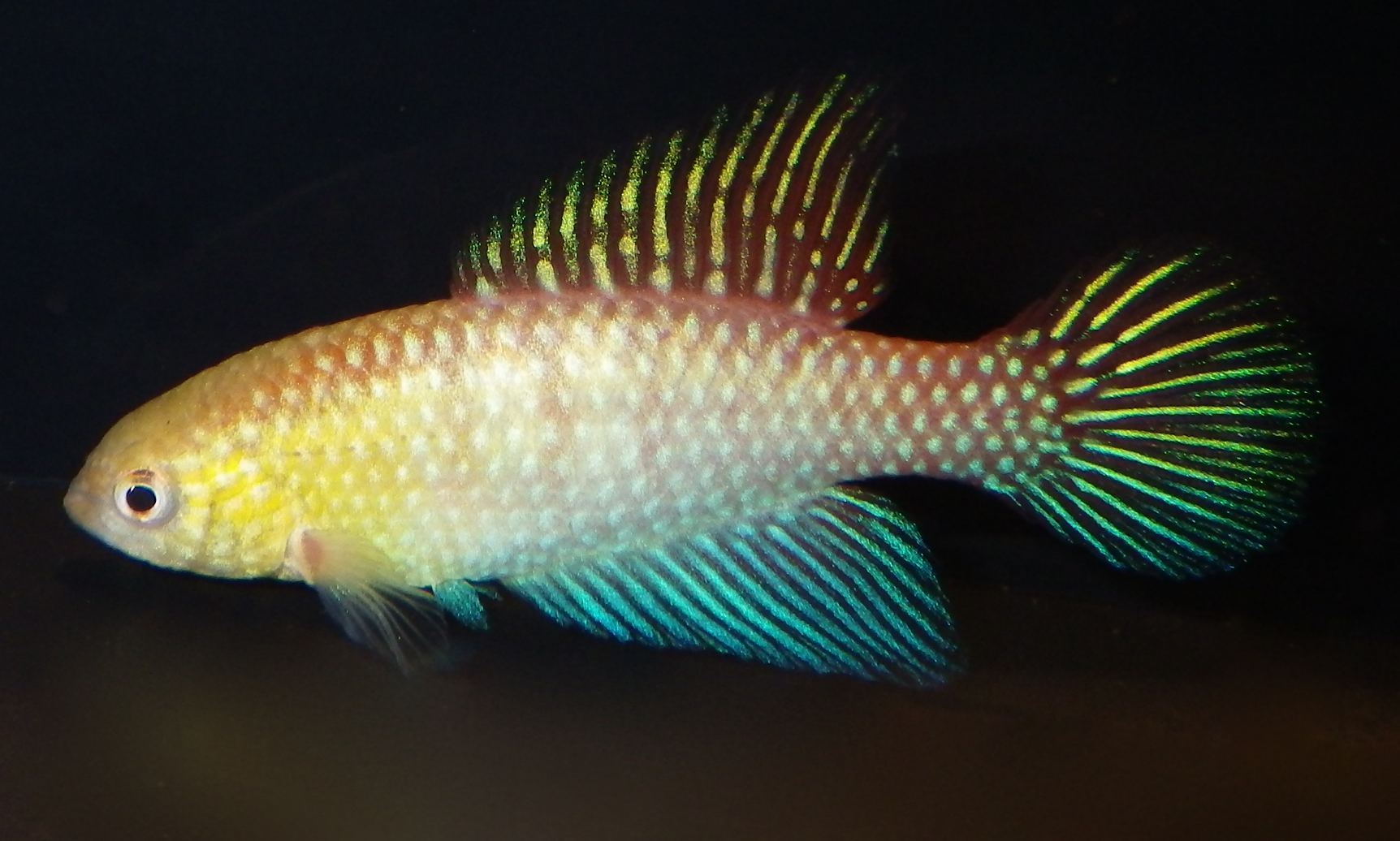 Male Hypsolebias shibattai, ancestor collected in Bom Jesus da Lapa, Bahia, Brazil